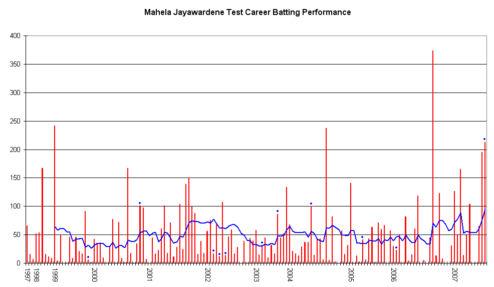 This graph details the Test Match performance of Mahela Jayawardene. It was created by Raven4x4x. The red bars indicate the player's test match innings, while the blue line shows the average of the ten most recent innings at that point. Note that this average cannot be calculated for the first nine innings. The blue dots indicate innings in which Jayawardene finished not-out. This graph was generated with Microsoft Excel 2002, using data from Cricinfo [1] and Howstat [2]. The information in this chart is current as of 28 January 2008.